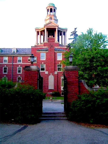 Ohio Wesleyan University